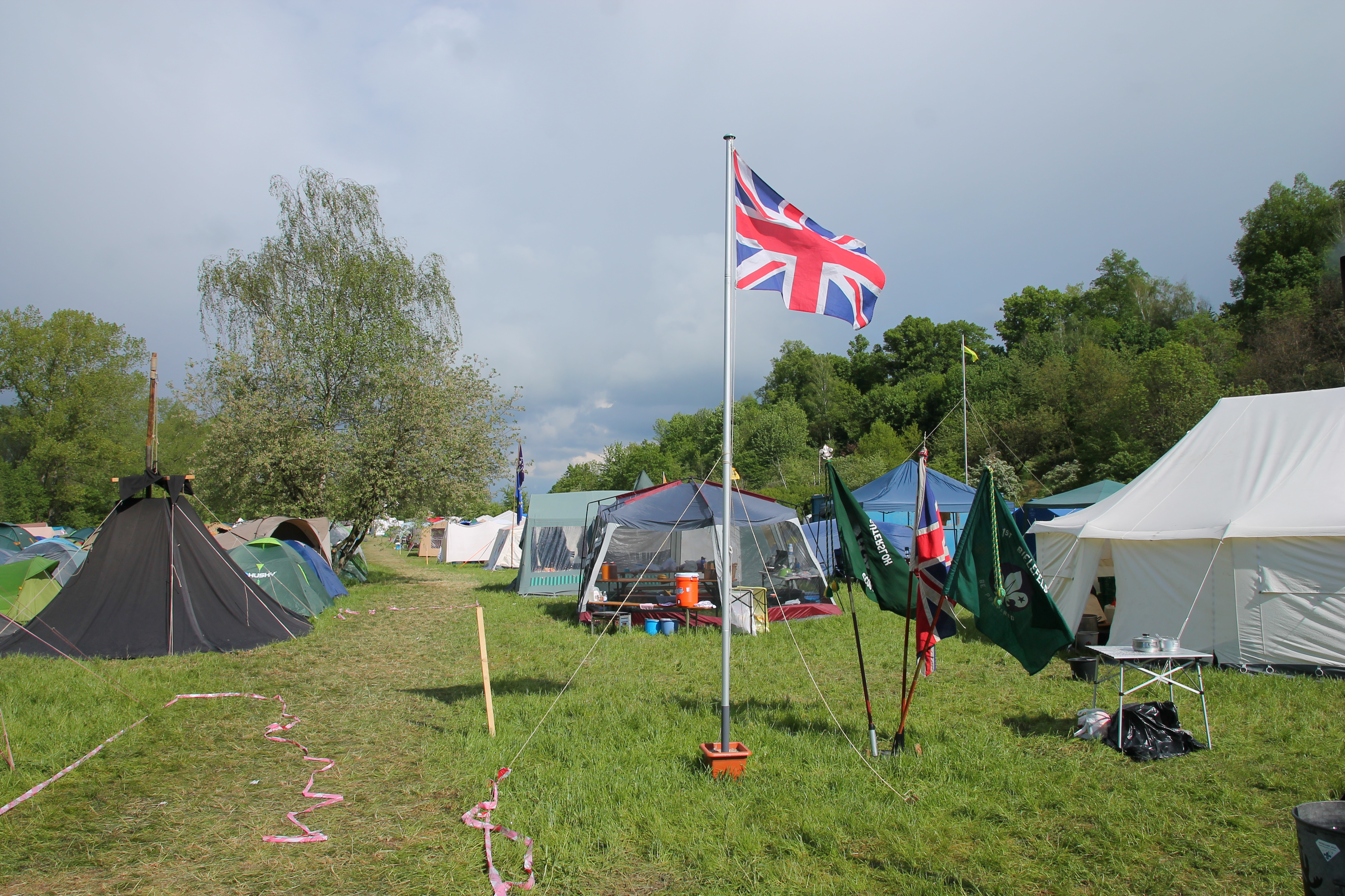 Intercamp 2016 (13.–16. 5. 2016), Josefov fortress, Jaroměře, Czech Republic, UK flag